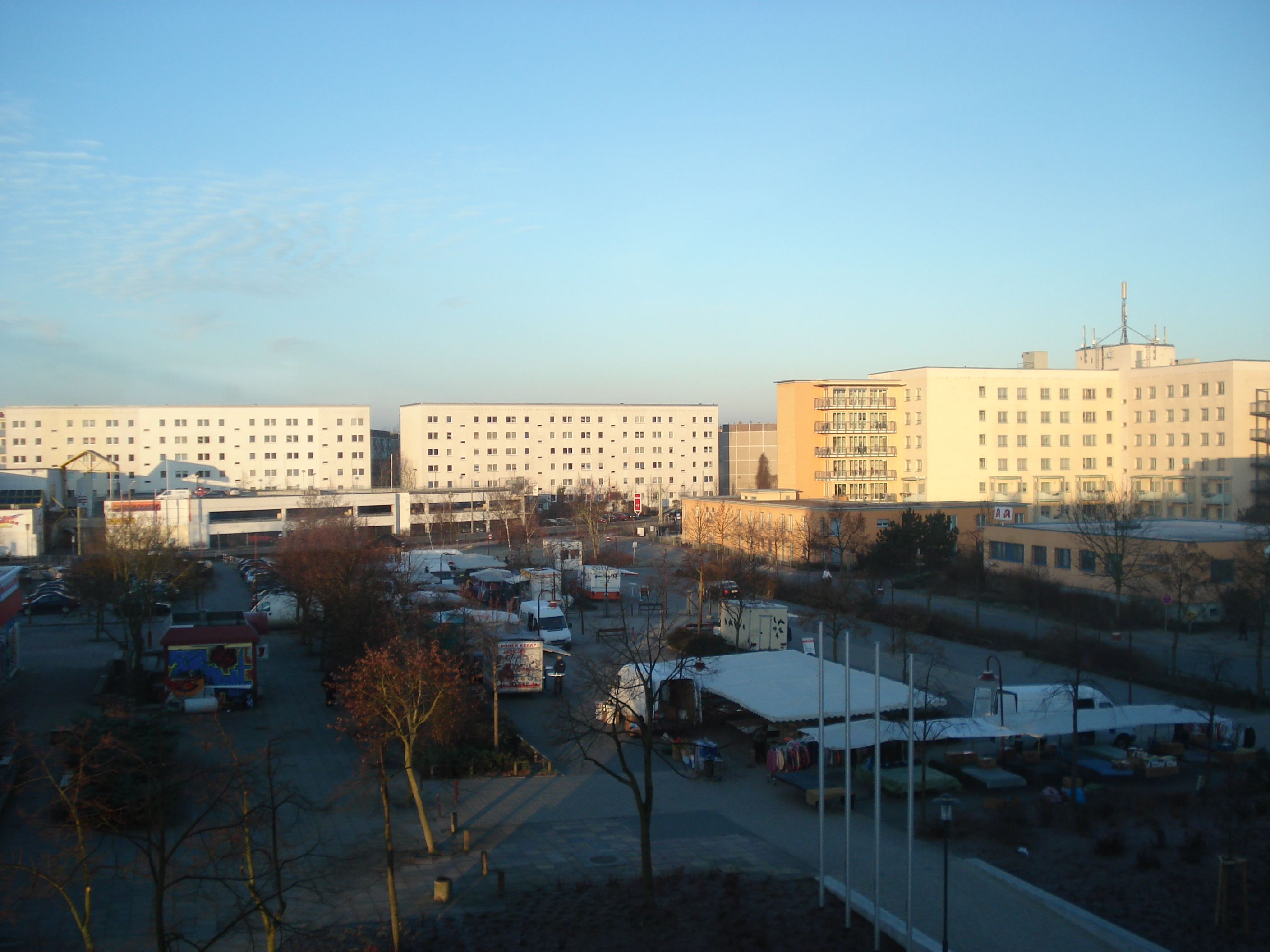 The Marketplace of Hohenstücken, the former "Sidecenter North"